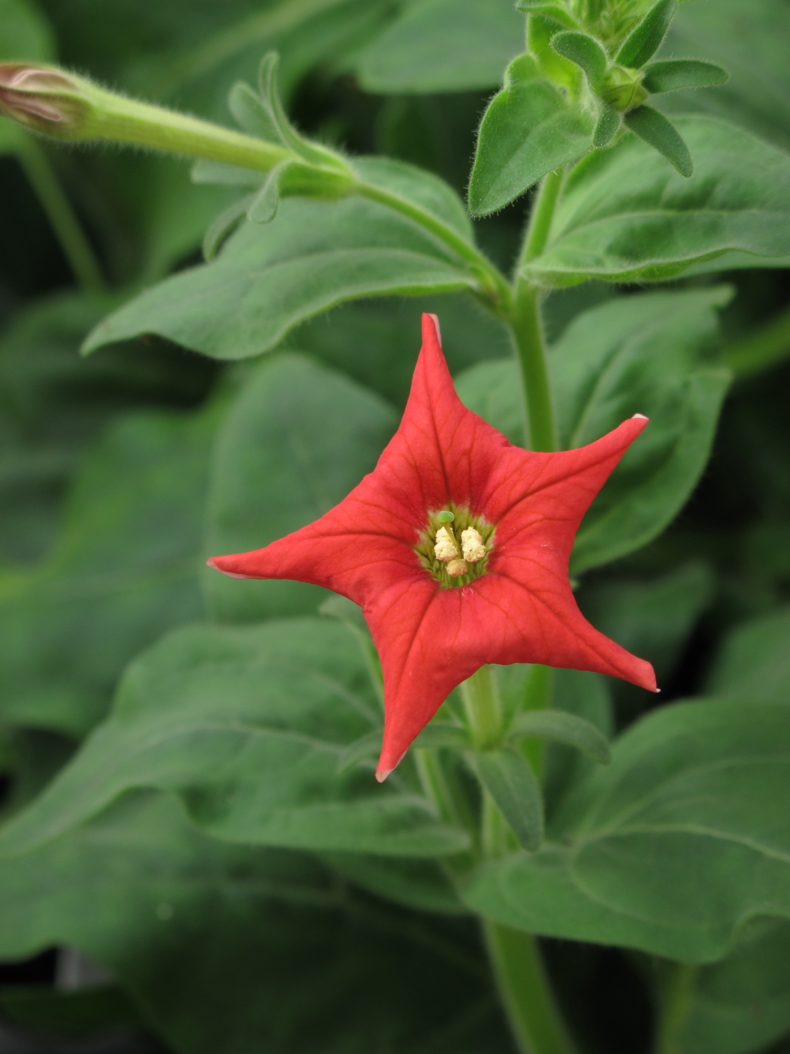 cultivated, Biological Sciences Greenhouse, Florida International University, Miami, FL, USA. My camera can't resist more photos of these charming flowers.